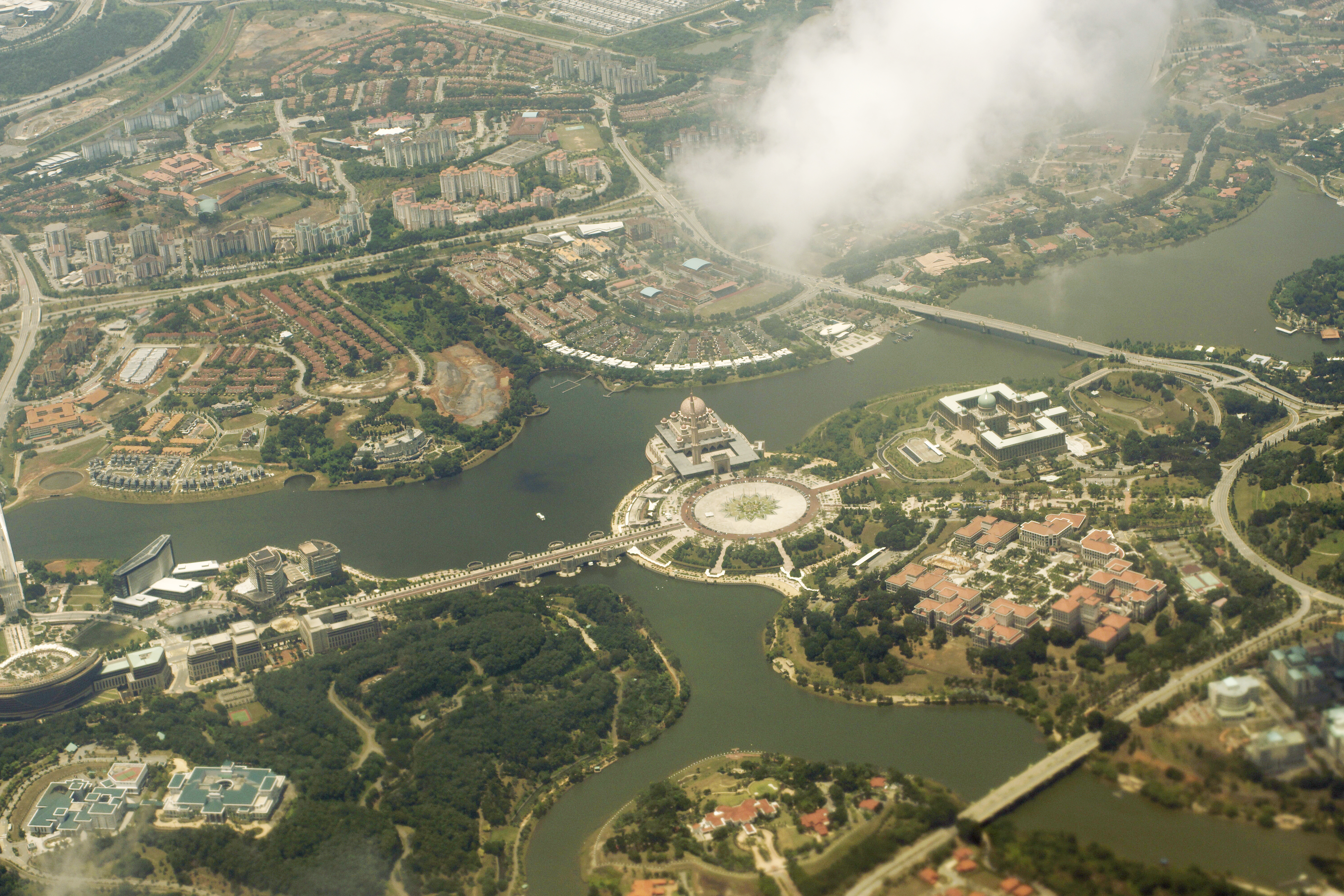 Putrajaya, Malaysia 2013. Taken on a flight from Kuala Lumpur to Kuching on Air Asia - October 2013